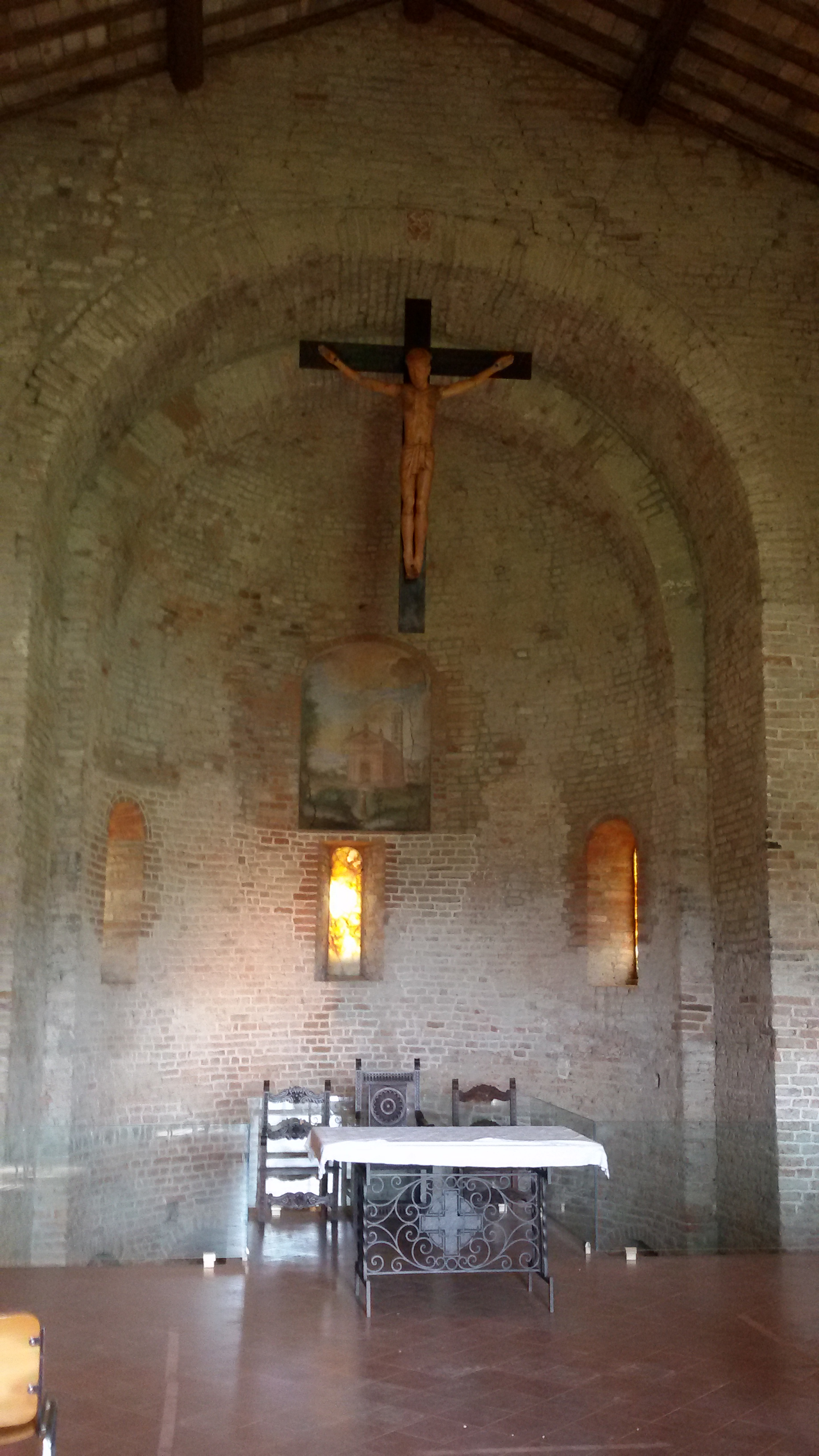 San Genesio Curch San Secondo